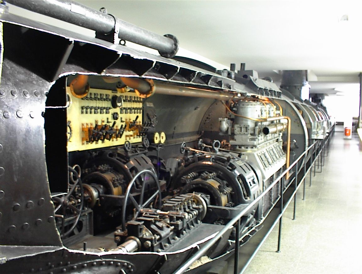 U-1: Built in 1906, the first German submarine (Uboot), exposed in Deutsches Musem at Munich.